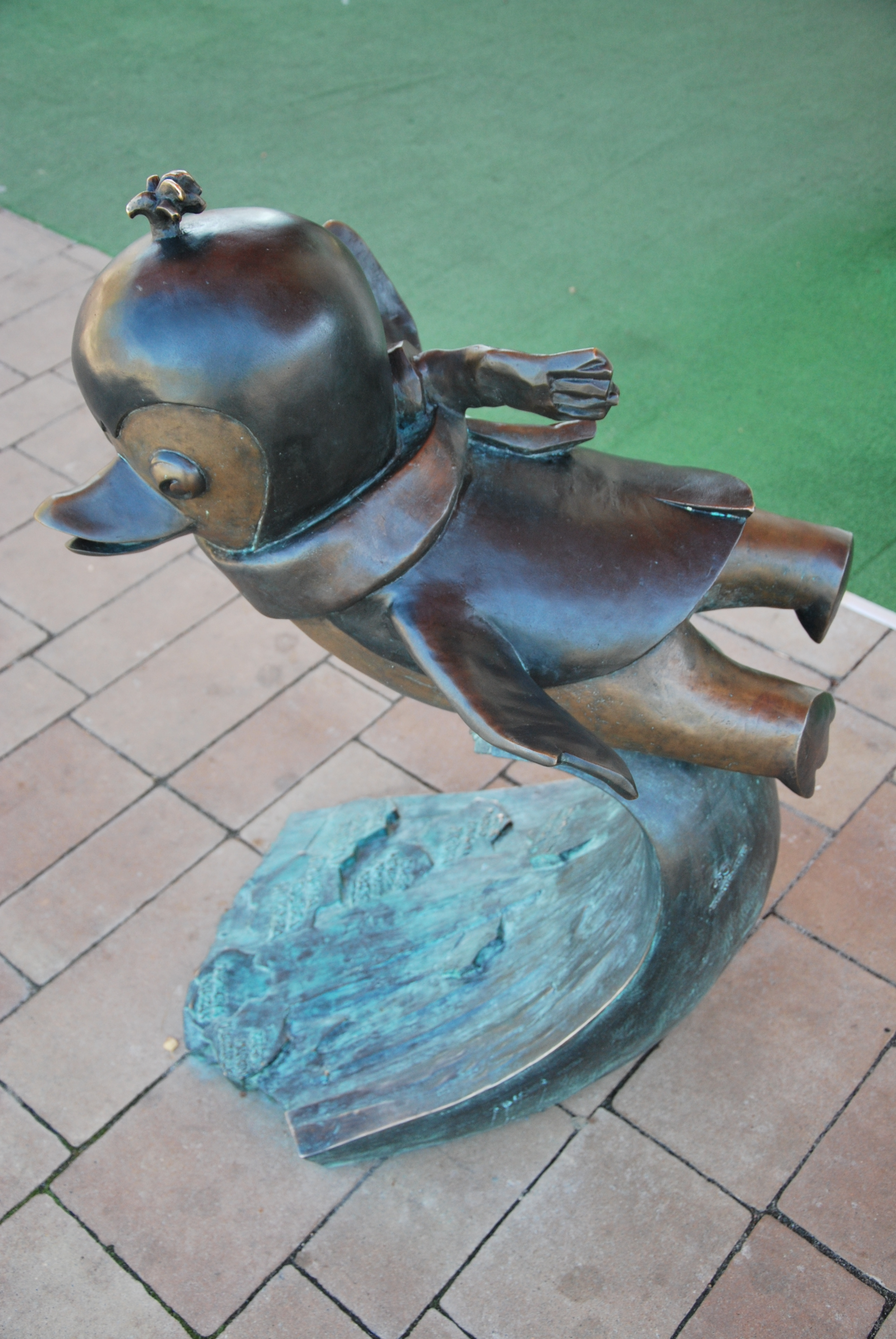 Pik-pok sculputure near aquapark 'Fala' in Łódź